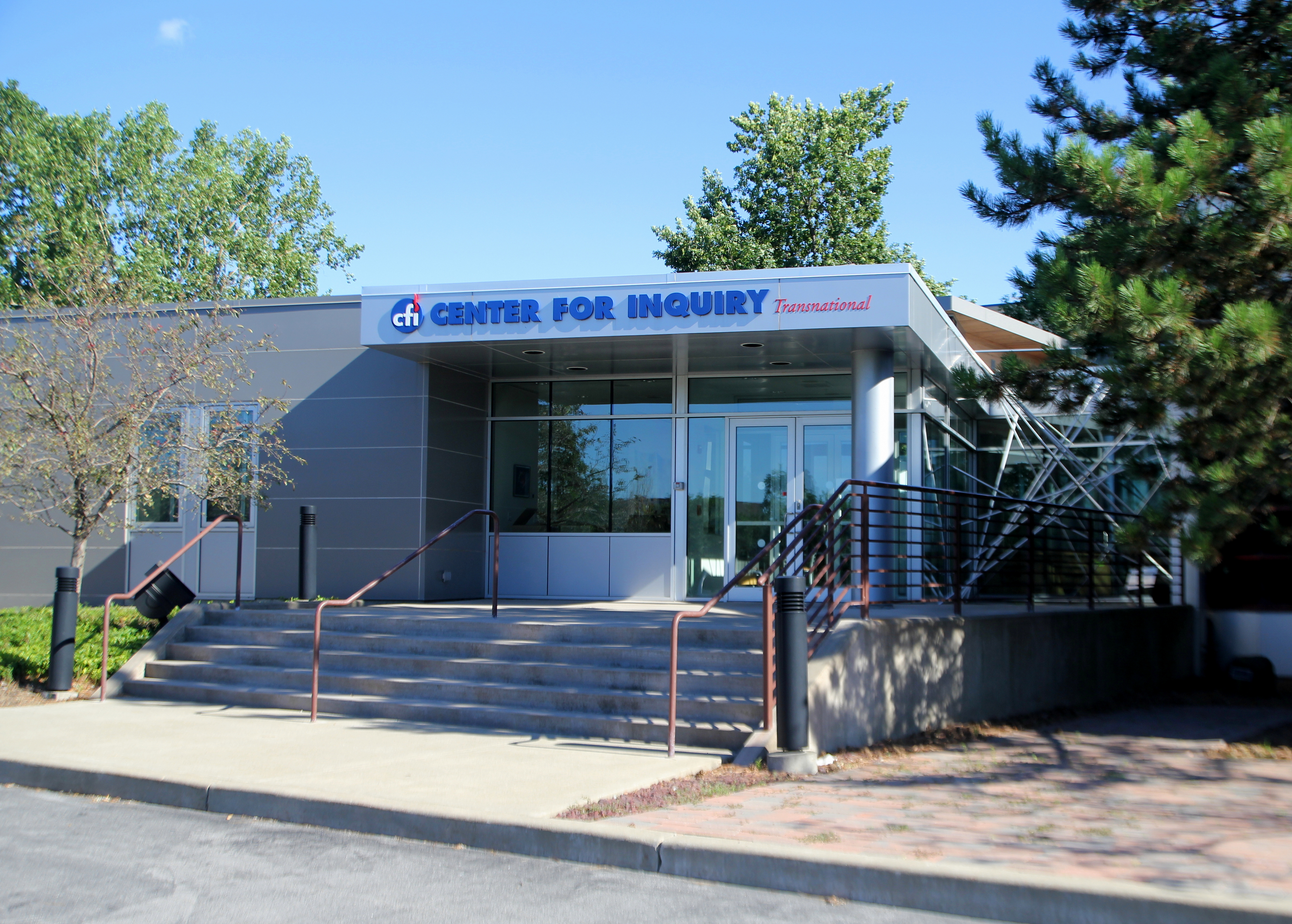 July 2013 - Front of CFI International, Amherst, New York